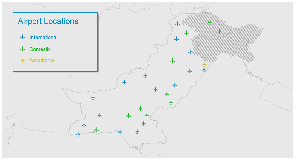 Airport Locations in Pakistan